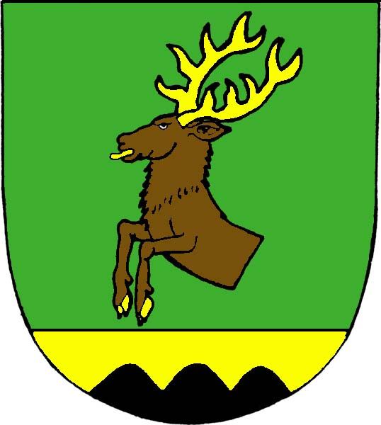 Municipal coat of arms of Malé Kyšice village, Kladno District, Czech Republic.